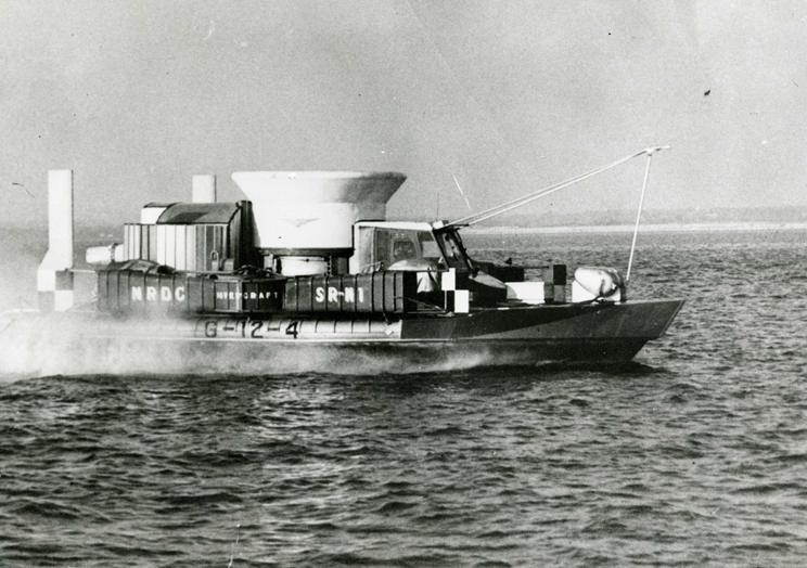 Description: Experimental Hovercraft SRN-1 during trials by the Royal Navy. Date: c.1963 Our Catalogue Reference: ADM 1/28993 This image is from the collections of The National Archives. Feel free to share it within the spirit of the Commons. For high quality reproductions of any item from our collection please contact our image library.